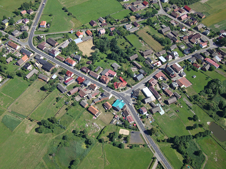 Sieraków Śląski z lotu ptaka